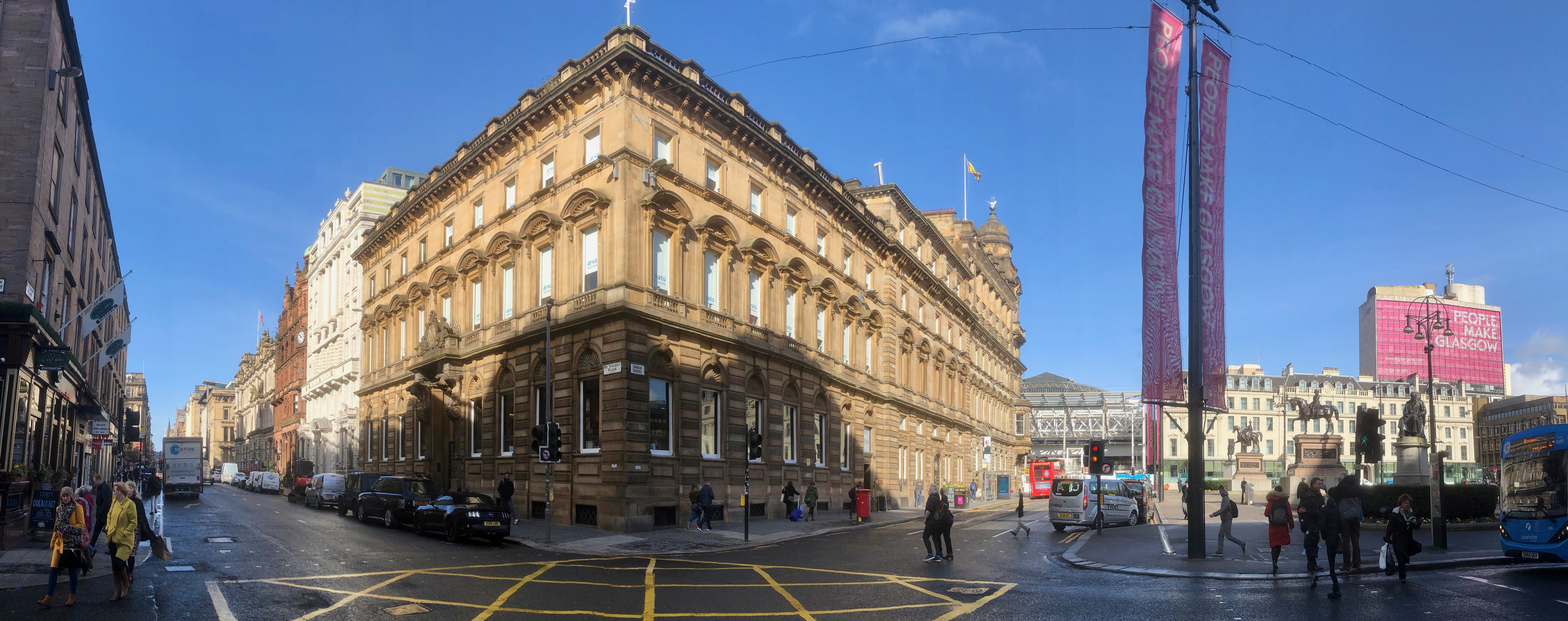 St Vincent Place with entrance to Bank of Scotland building at corner to George Square, Glasgow, with west side continuing to Merchants' House